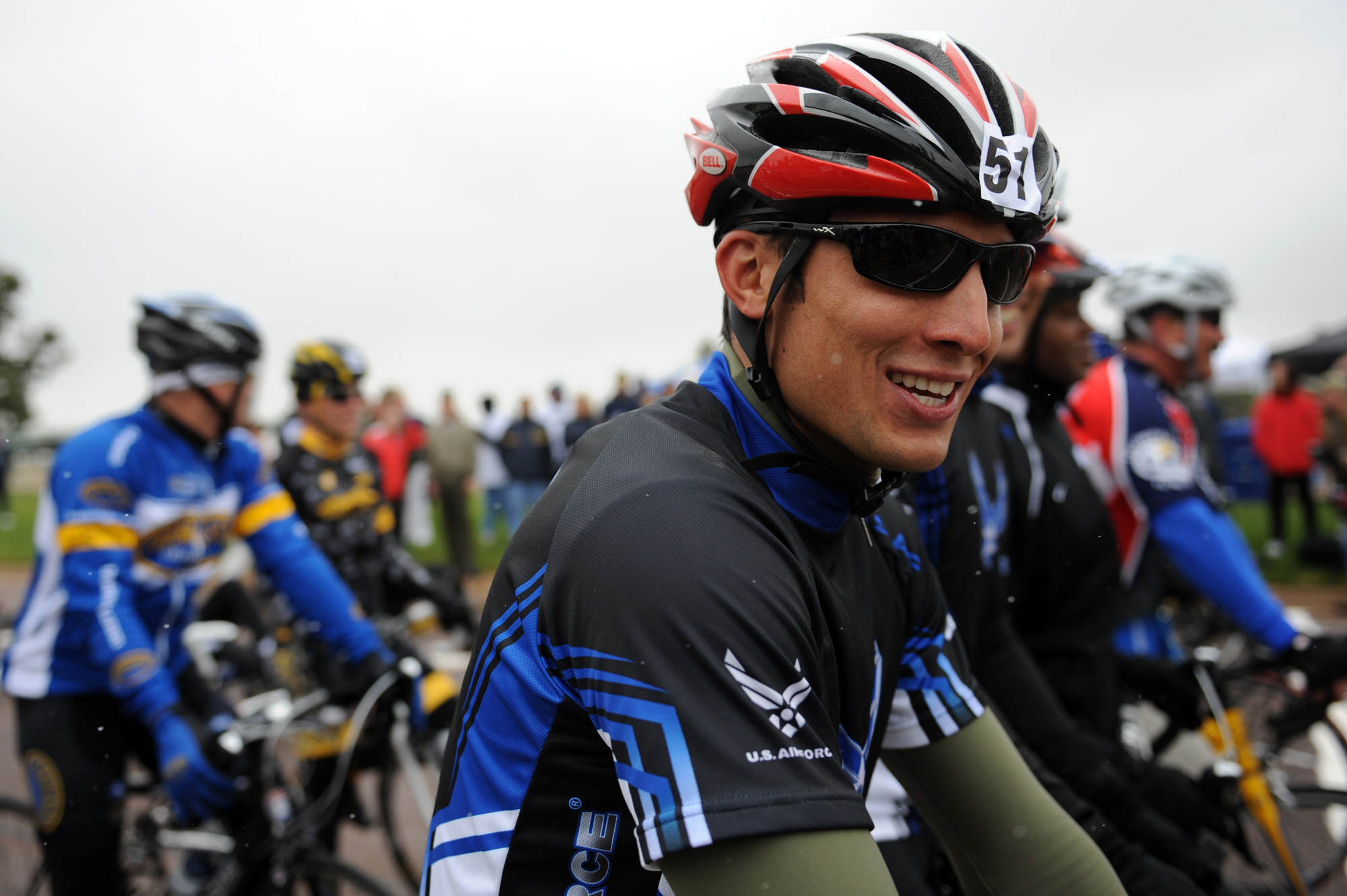 U.S. Air Force Staff Sgt. Marc Esposito waits for the signal to begin the 20-kilometer upright bike race during the inaugural Warrior Games at the Olympic Training Center in Colorado Springs, Colo., May 13, 2010. The Warrior Games is a Paralympics-style competition where the services compete against each other in events such as sitting volleyball, wheelchair basketball, archery, shooting and swimming.